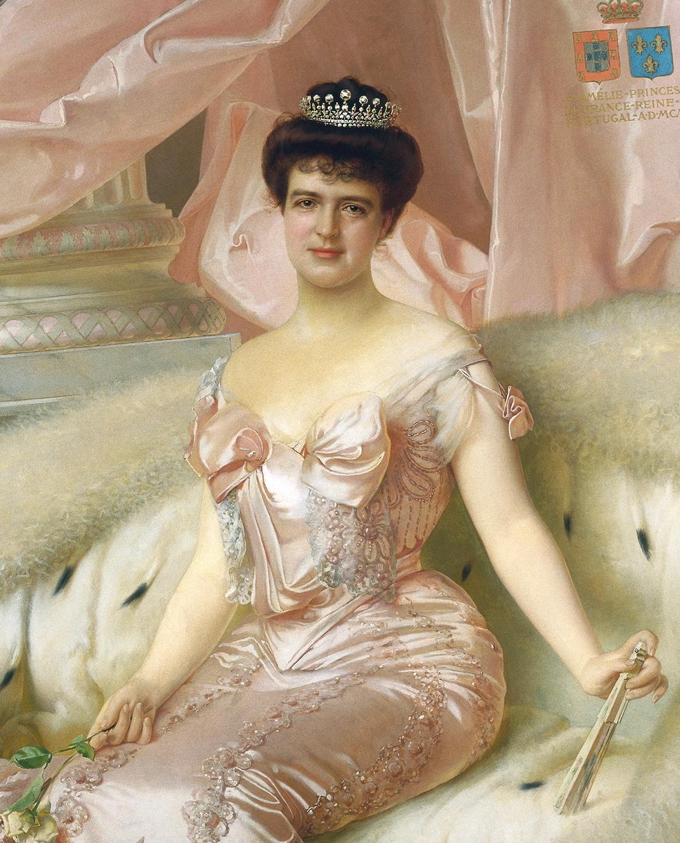 Detail from: Vittorio Matteo Corcos, 1905, Portrait of Queen Amélie of Orléans, W 182 x L 158 cm